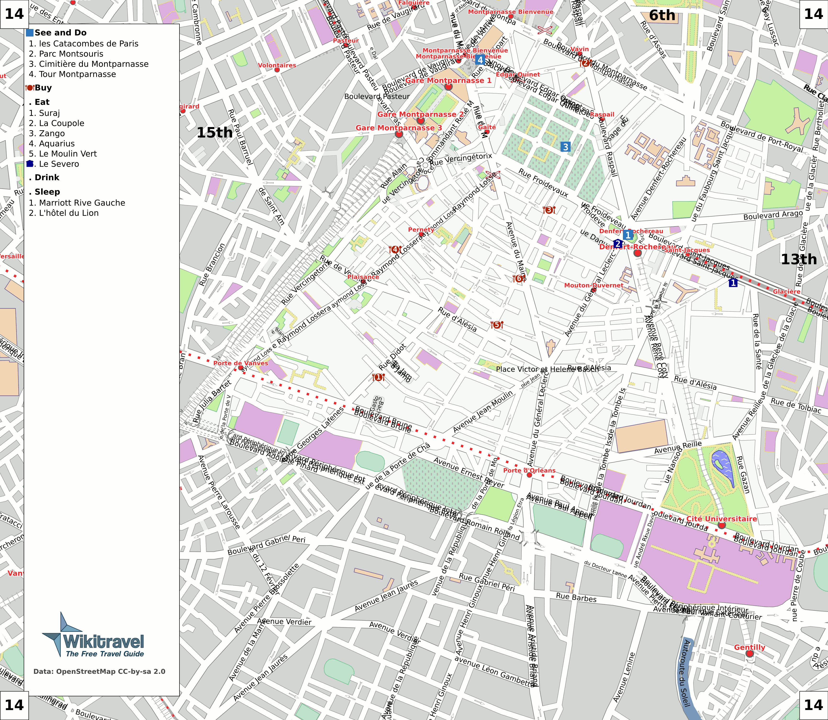 Map of the 14st arrondissement of Paris.